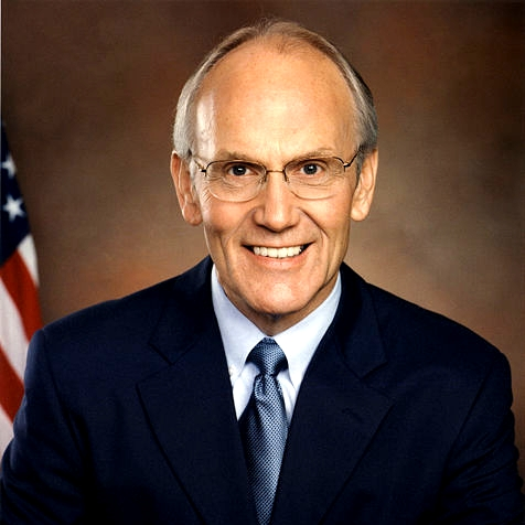 Larry Craig, member of the United States Senate from Idaho.